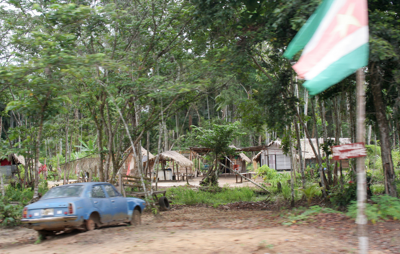 On the road to Galibi, Suriname. Indian village